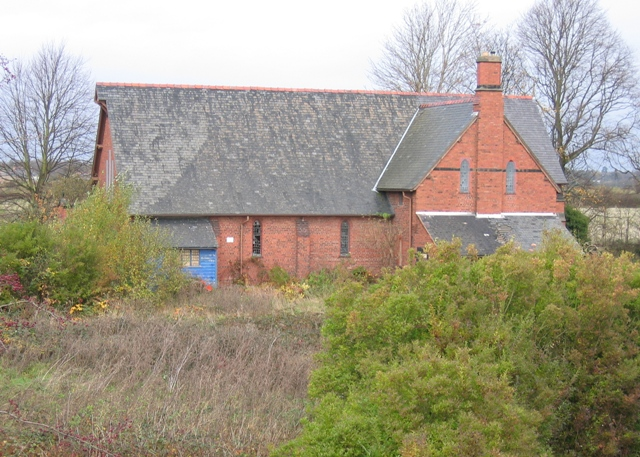 St Matthews, Saltney Ferry Yet another redundant church, a casualty of a dwindling congregation. St Matthews is located at the north east end the Mold Junction railway bridge, just north of the Chester to Holyhead railway line.